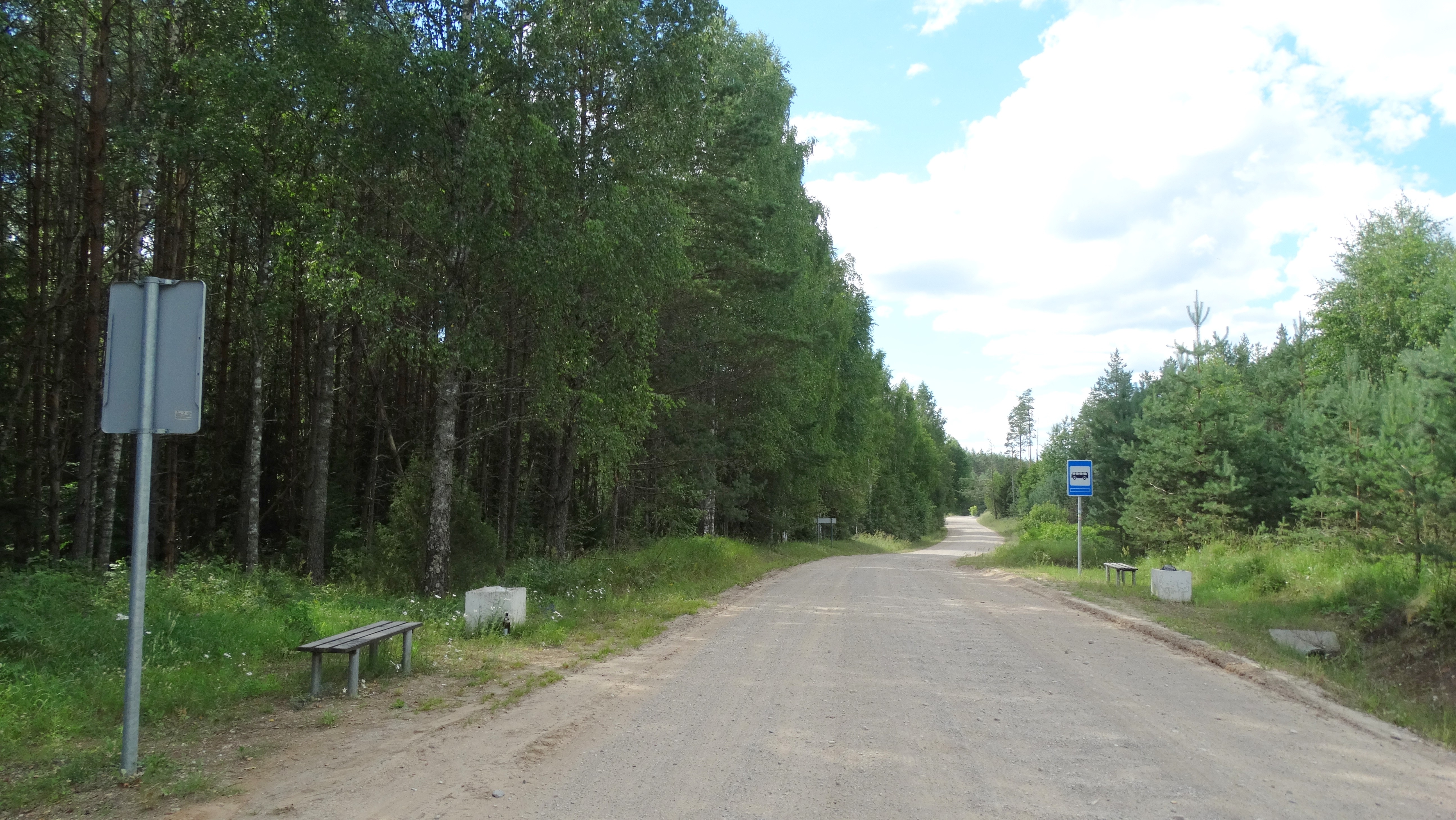 Šlapimas, Švenčionys District, Lithuania